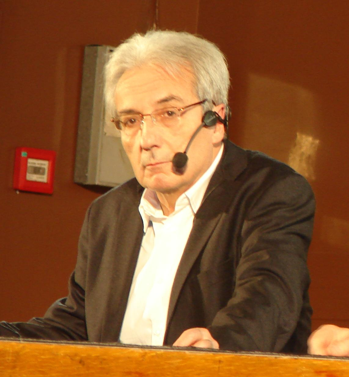 Albert Fert giving a scientific talk at the Conference of "Spintronique" (Descartes University) in Paris, France on January 15th, 2009.